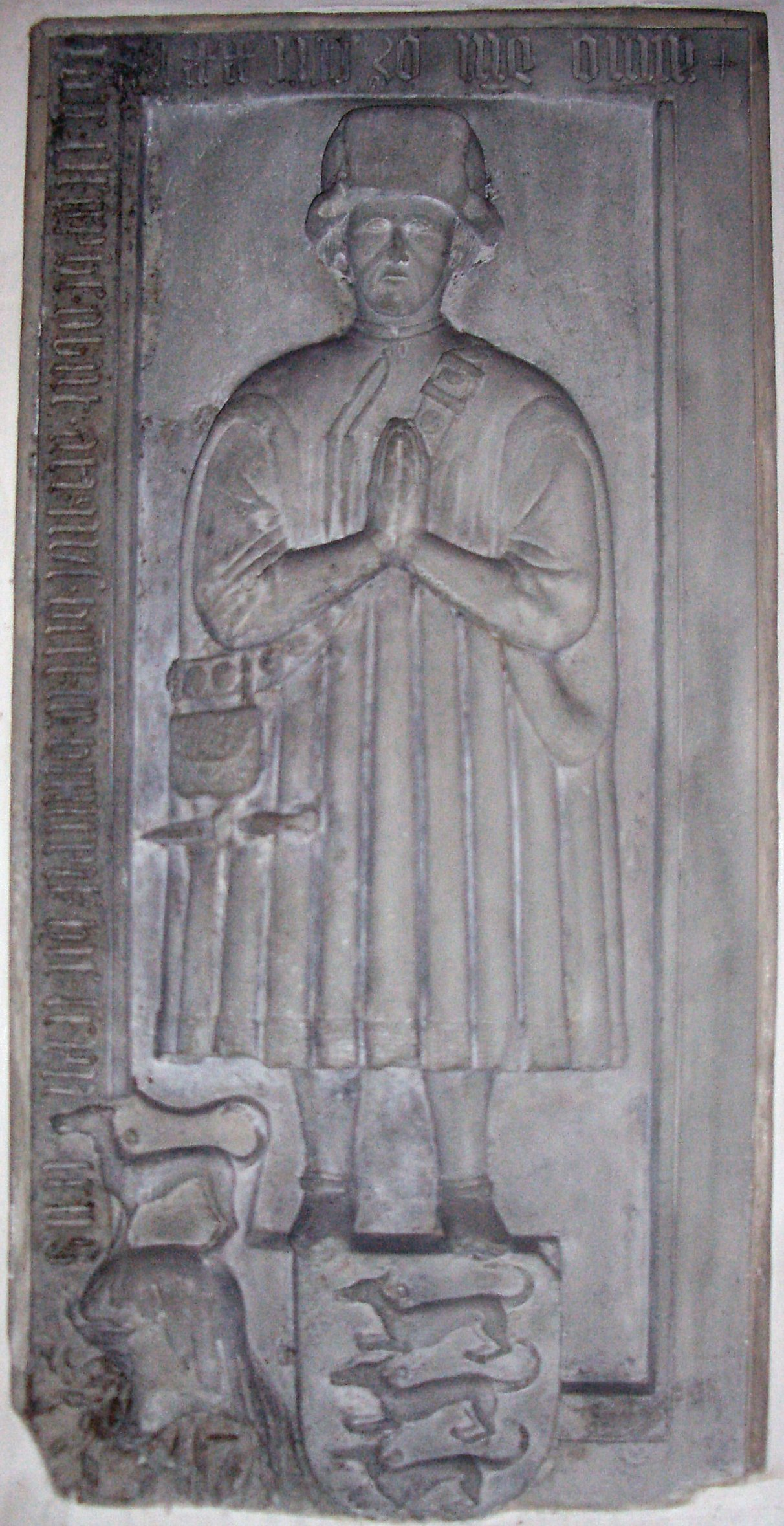 Ravensburg, Tombstone of Henggi Humpis (†1429), merchant of the Große Ravensburger Handelsgesellschaft.